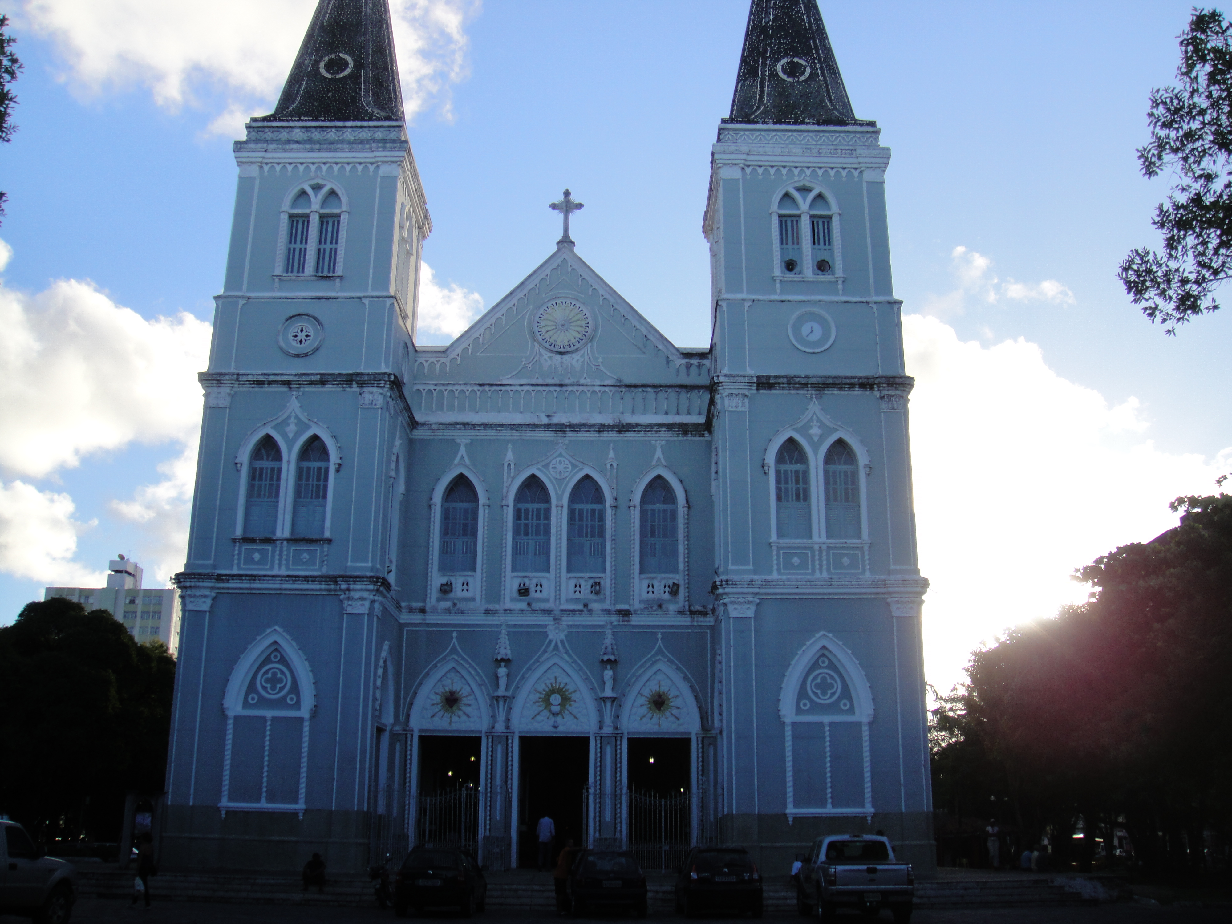 Cathedral of Aracaju. Immaculate Conception. Aracaju, state of Sergipe, Brazil.